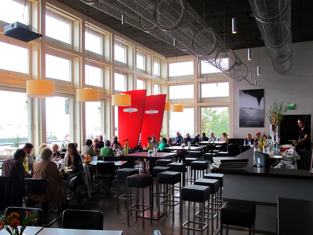 Restaurant, Zeppelin Museum Friedrichshafen Germany